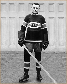 Joe Malone in the Montreal Canadiens uniform.